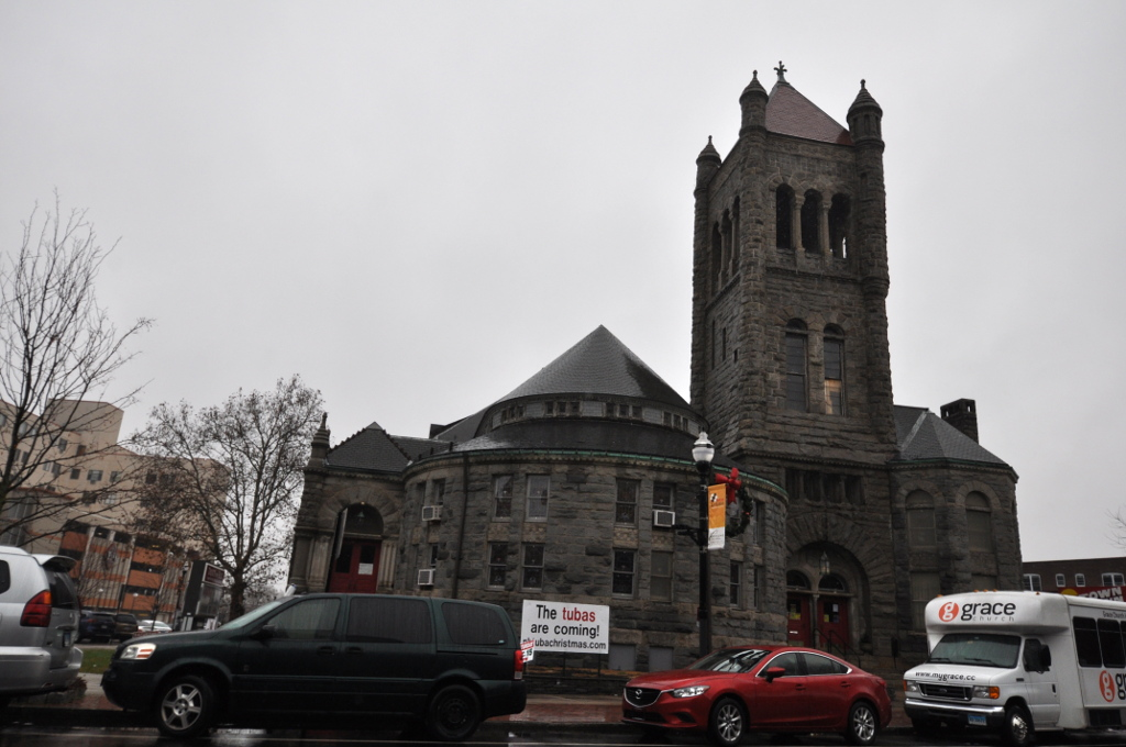 The former Trinity Methodist Episcopal Church, New Britain, Connecticut.